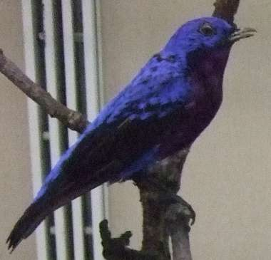 Stuffed specimen of the Purple-breasted Cotinga (Cotinga cotinga) at the Cambridge University Museum of Zoology. The specimen was collected by William Cooke Daniels in 1903, at the Mazaruni River in British Guiana.